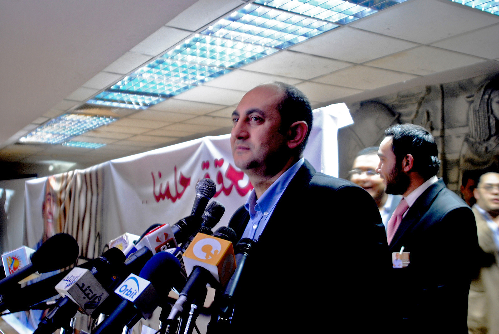 Potential Presidential Candidate Khaled Ali speaking at a press conference where he announced that he will be contesting in the presidential race.